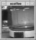 A picture of the Trojan Room coffee pot, displayed in the XCoffee viewer.